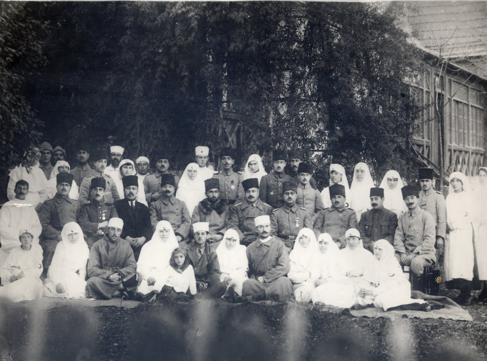 Staff officers of the Army of Islam and staff of the Ministry of Health of the Azerbaijan Democratic Republic in Yelizavetpol (Gence)